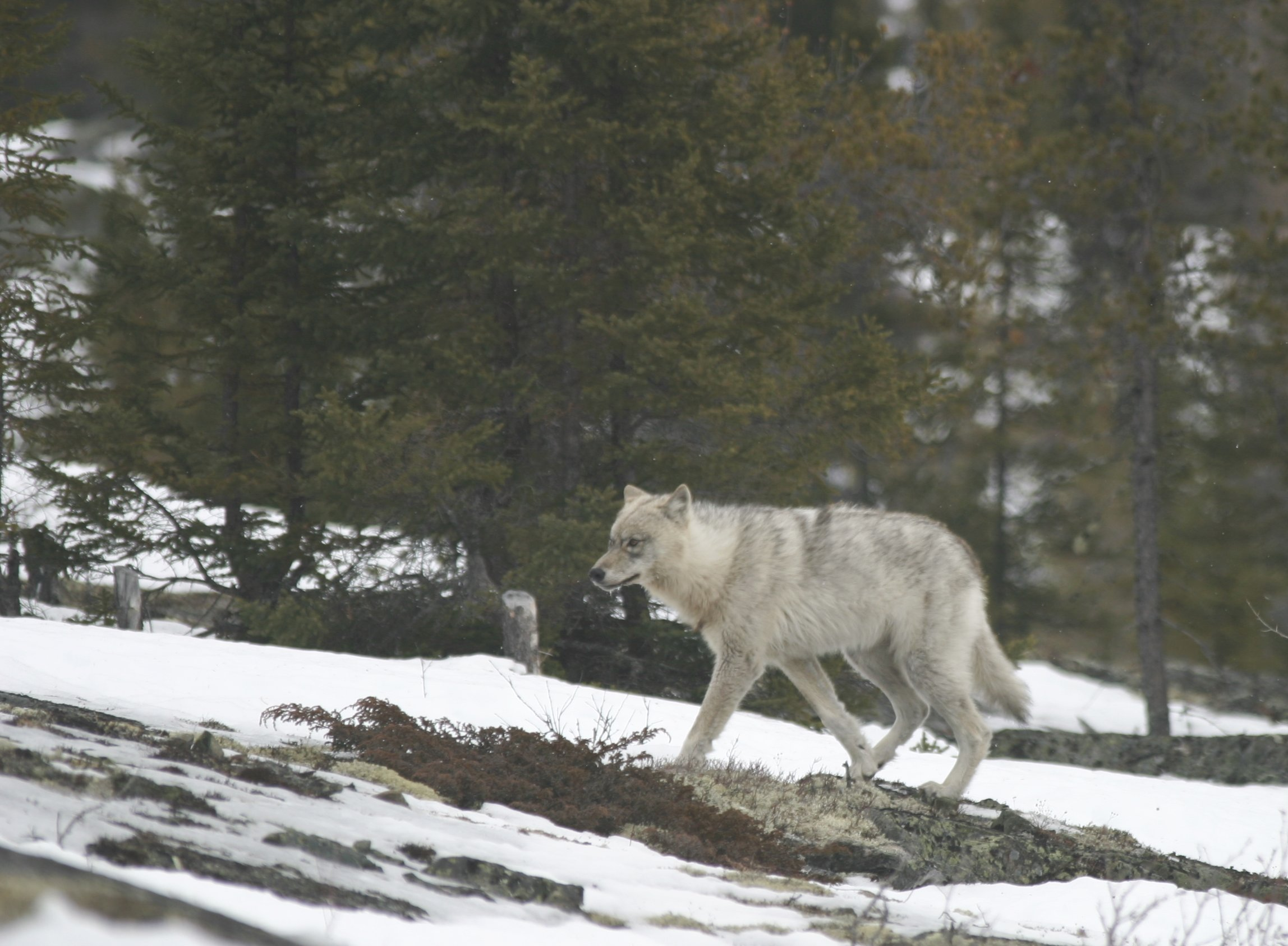 A wild wolf walk in snow: grey wolf (timber wolf) (Canis lupus).